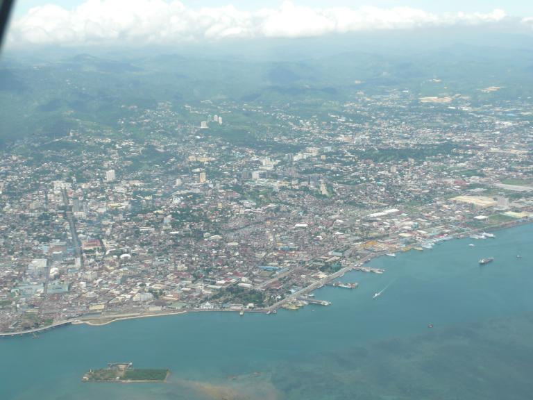 Cebu city, Philippines, taken from airplane